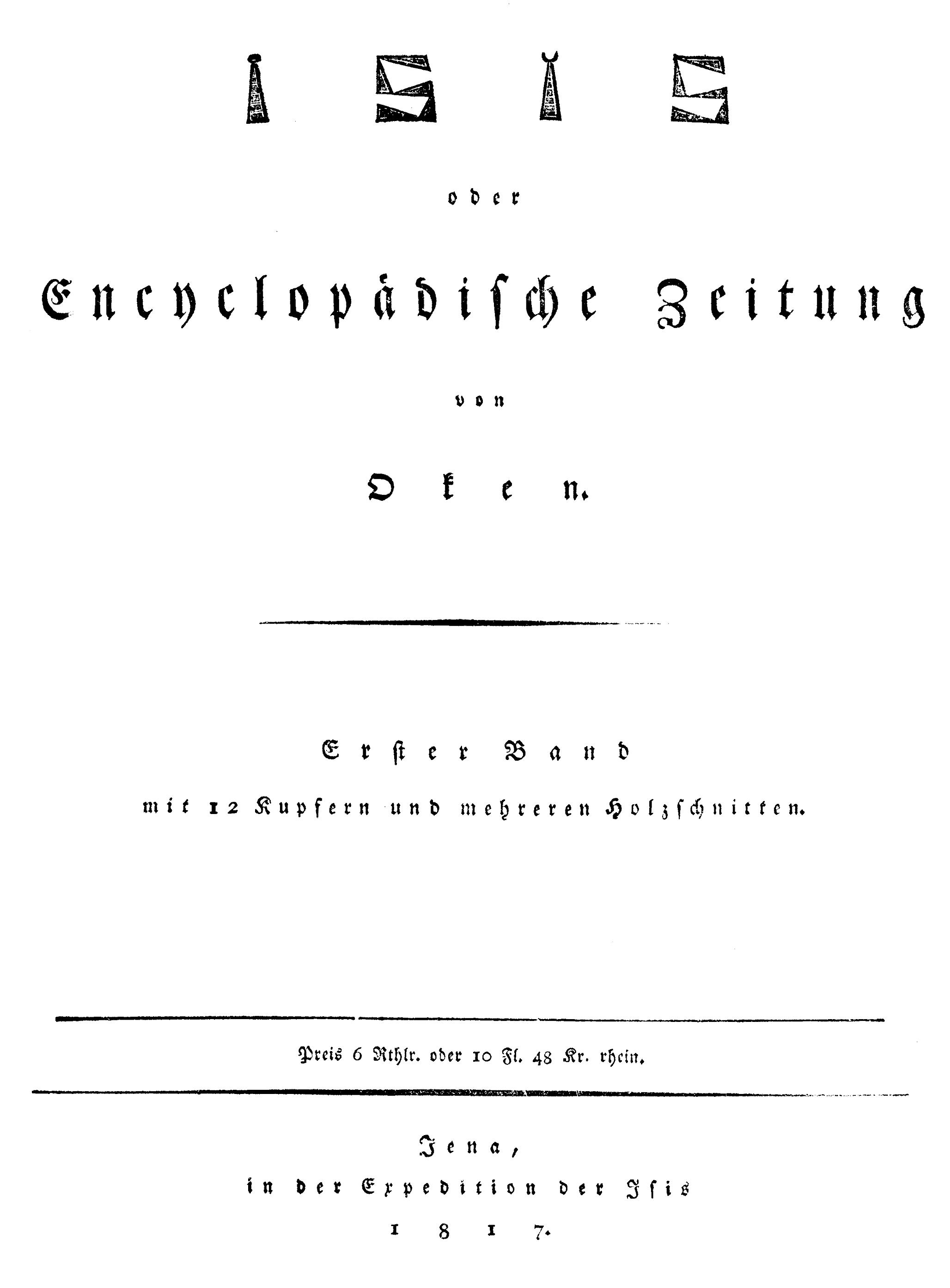 Isis Volume 1 1817 Titlepage